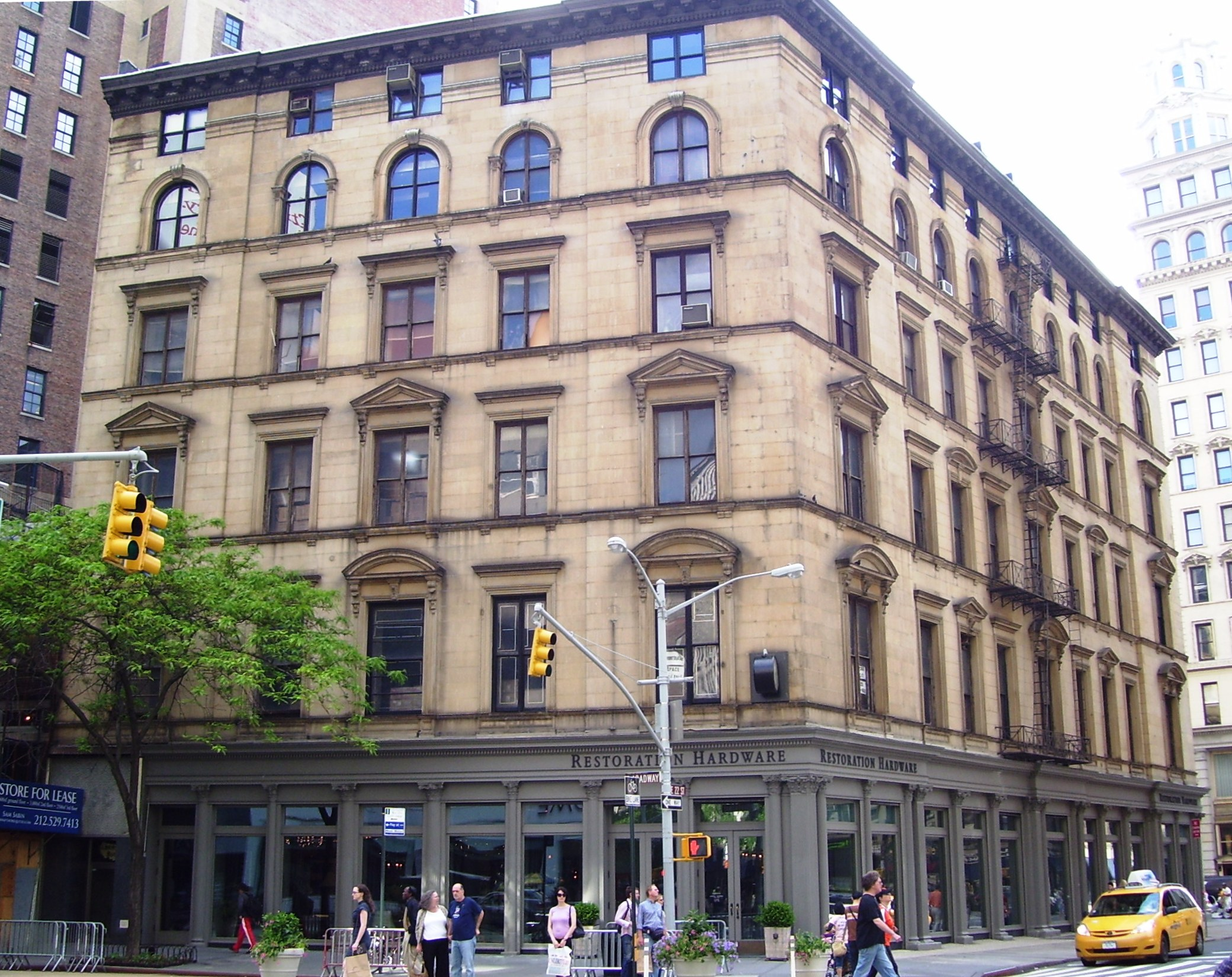 935-939 Broadway (also known as 159-161 Fifth Avenue), located between Broadway and Fifth Avenue along 22nd Street in the Flatiron District neighborhood of Manhattan, New York City, was built in 1861-62 and was designed by Griffith Thomas in the Italianate style. The store and office building is typical of the first phase of commercial development in this area. In 1919, architects Rouse & Golstone added a sixth floor to the building. The building is located within the Ladies' Mile Historic District. (Source: "NYCLPC Ladies' Mile Historic District Designation Report, volume 1")